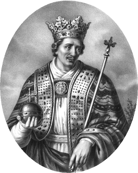 Casimir IV of Poland